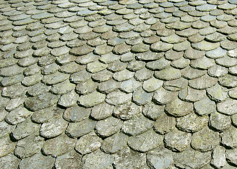 Old roof covered with "lauze" Personal picture